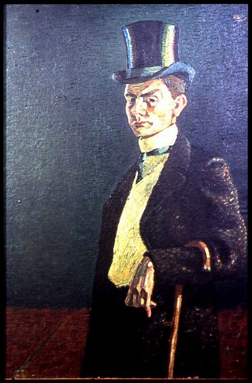 Selbstporträt im Geh-rock IV